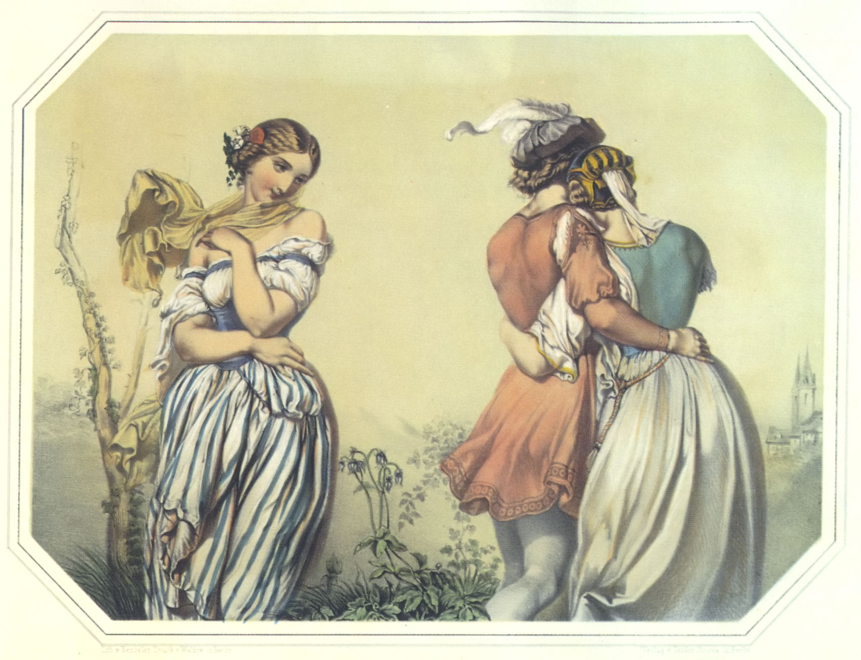 Happy in Love. Colored lithography.